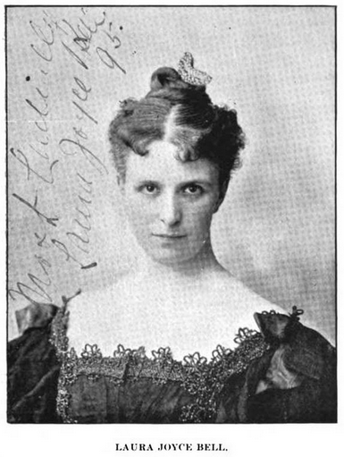 Laura Joyce Bell, from an 1895 publication.